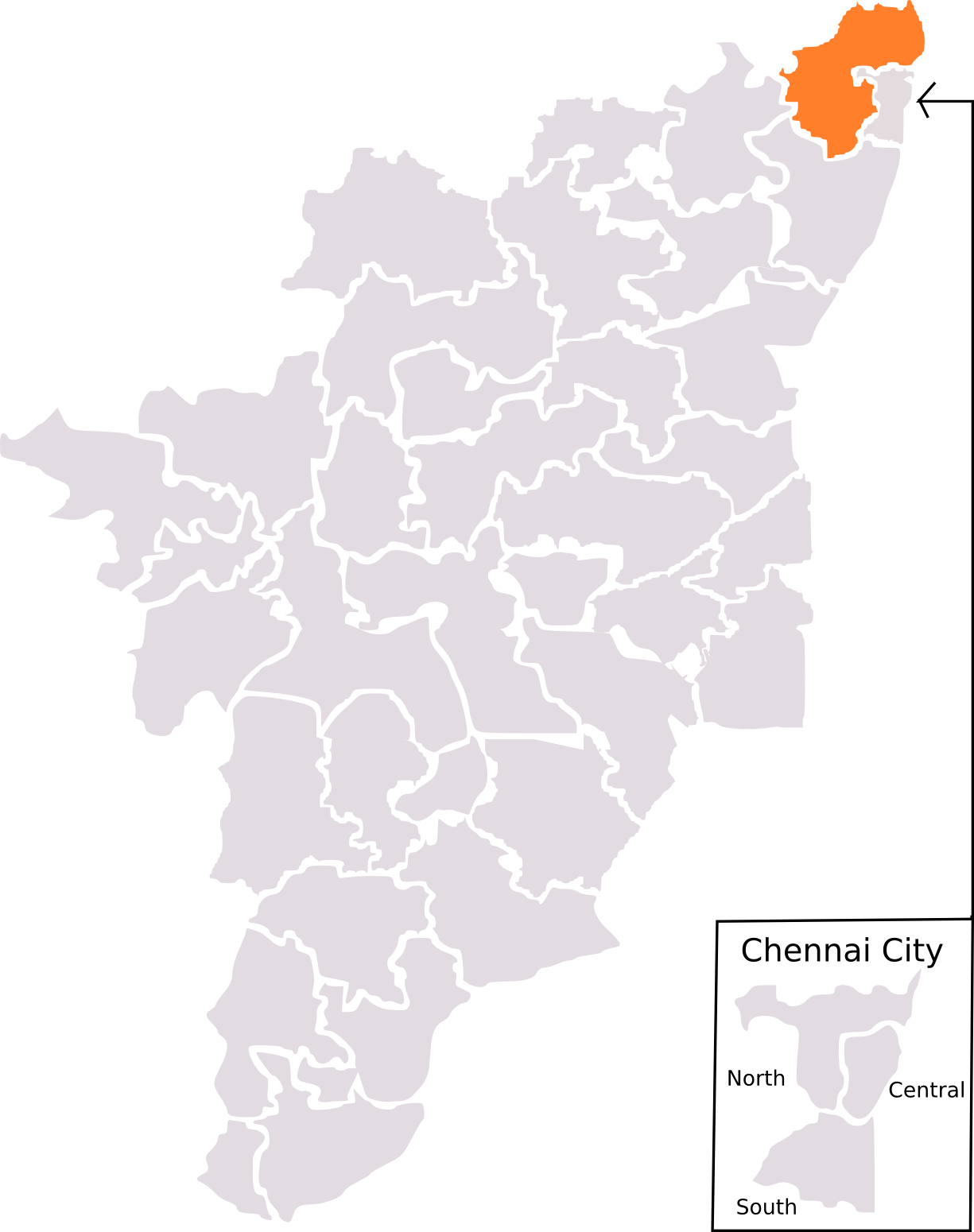 Lok Sabha Election map for Tamil Nadu that illustrates constituencies put in place by 1971 delimitation that was replaced in 2008. Map is based on ECI drawn map.